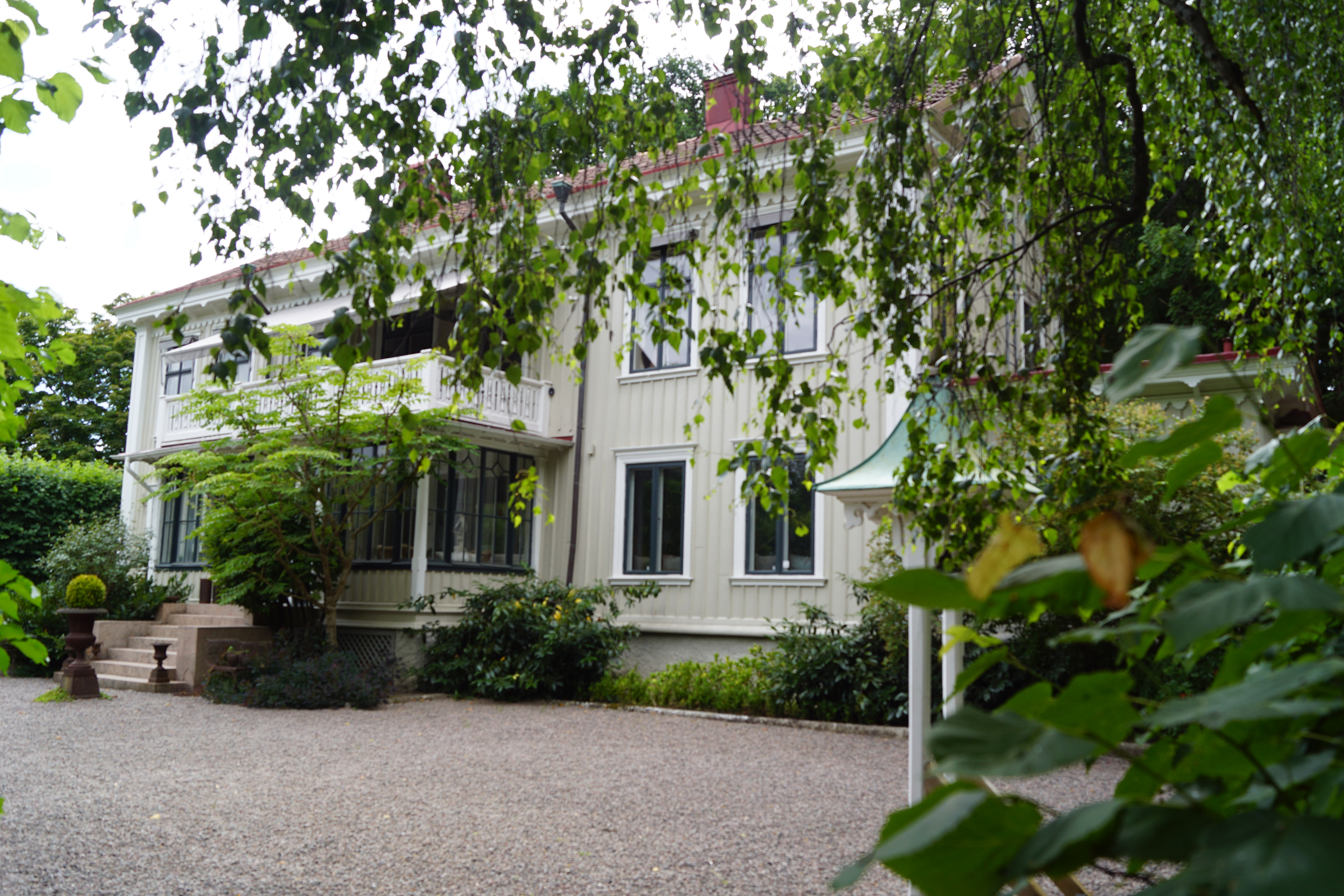 Stora Gårda Mansion in Göteborg Municipality, Västra Götaland County, Sweden.